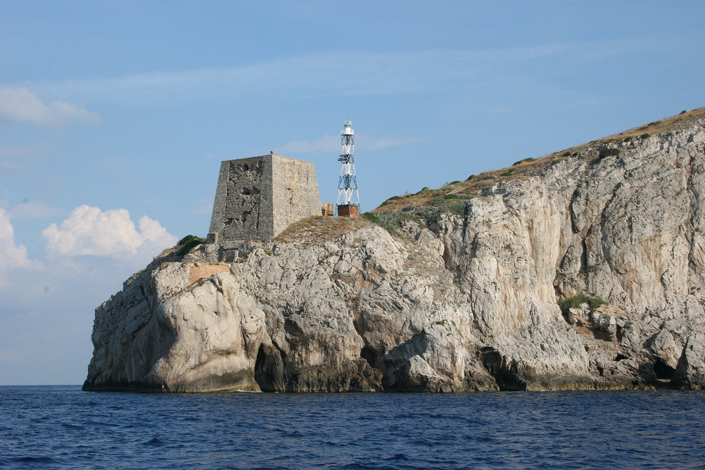 Punta Campanella view from the sea